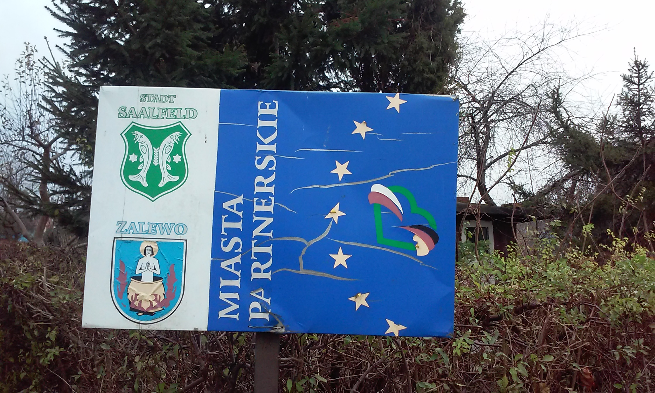 Zalewo, Warmian-Masurian Voivodeship, Poland